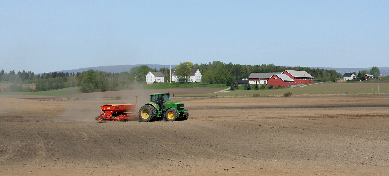 John Deere tractor pulling a Väderstad seed drill